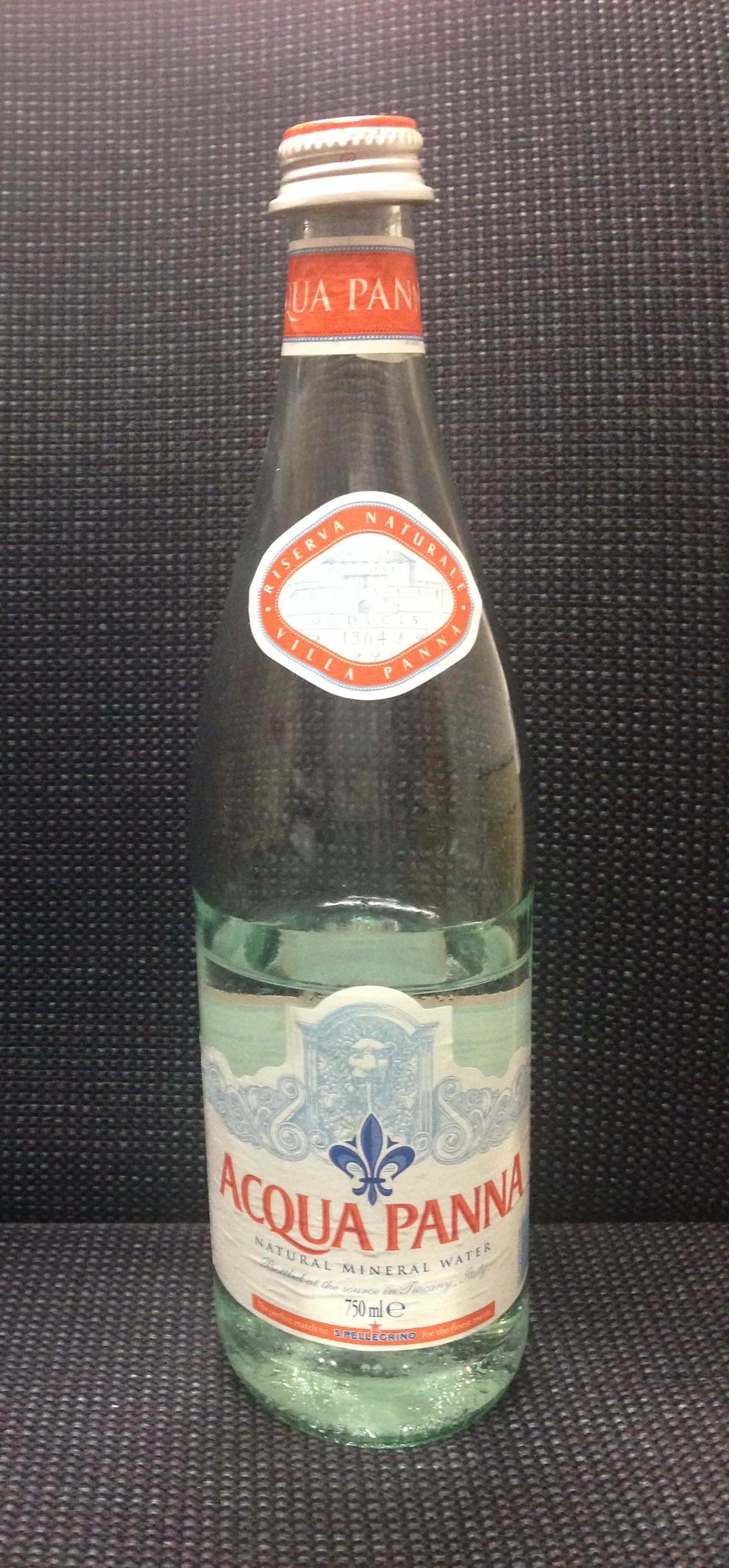 Acqua Panna mineral water in a glass bottle, Singapore.